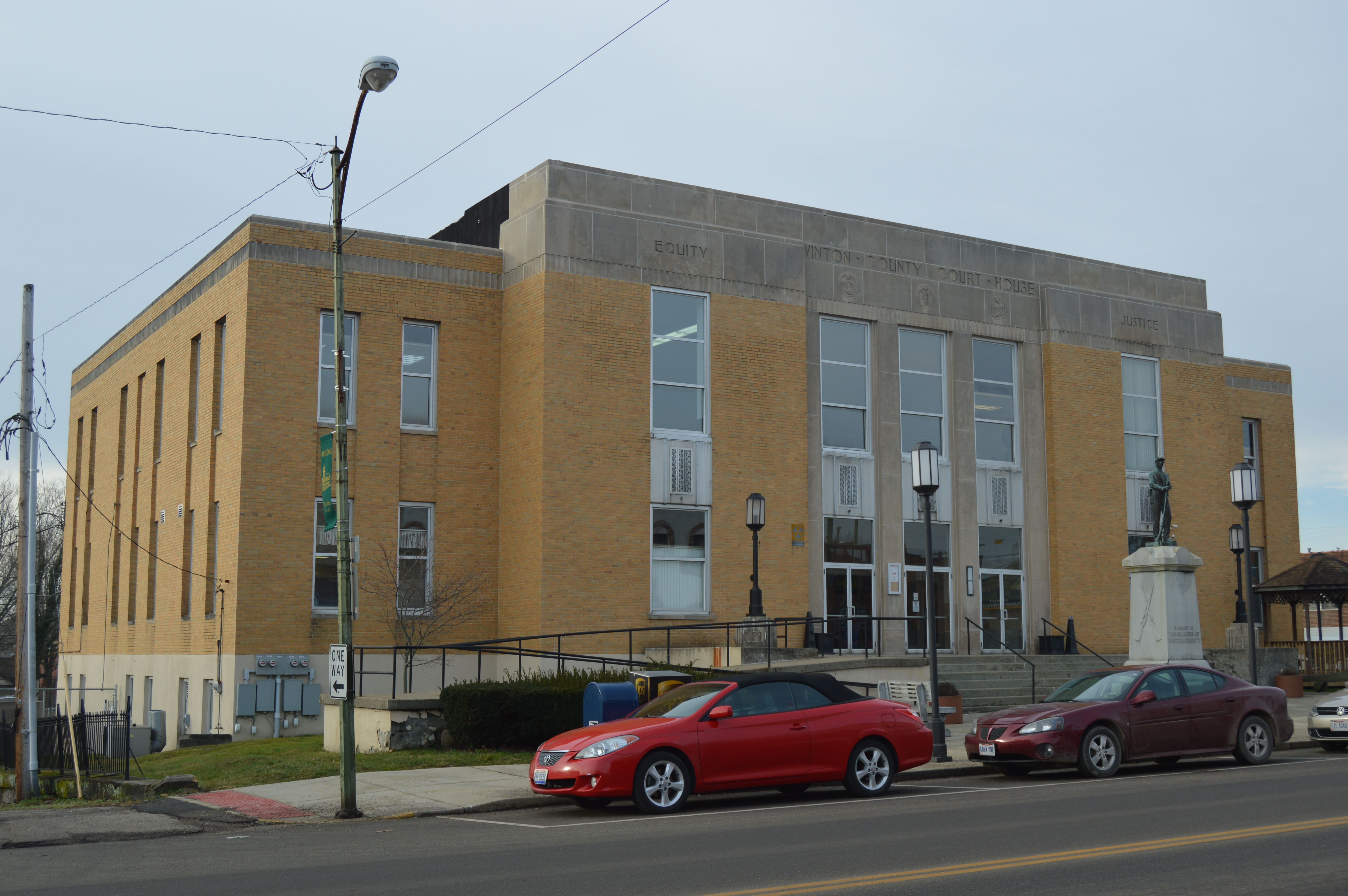 Front and eastern side of the Vinton County Courthouse, located on the southeastern corner of the junction of Main (U.S. Route 50) and Market (State Route 93) Streets in McArthur, Ohio, United States. It was built in 1939.